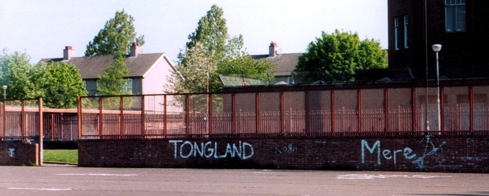 Tongland graffiti in the Calton. Photo taken 2004 by John Fleming